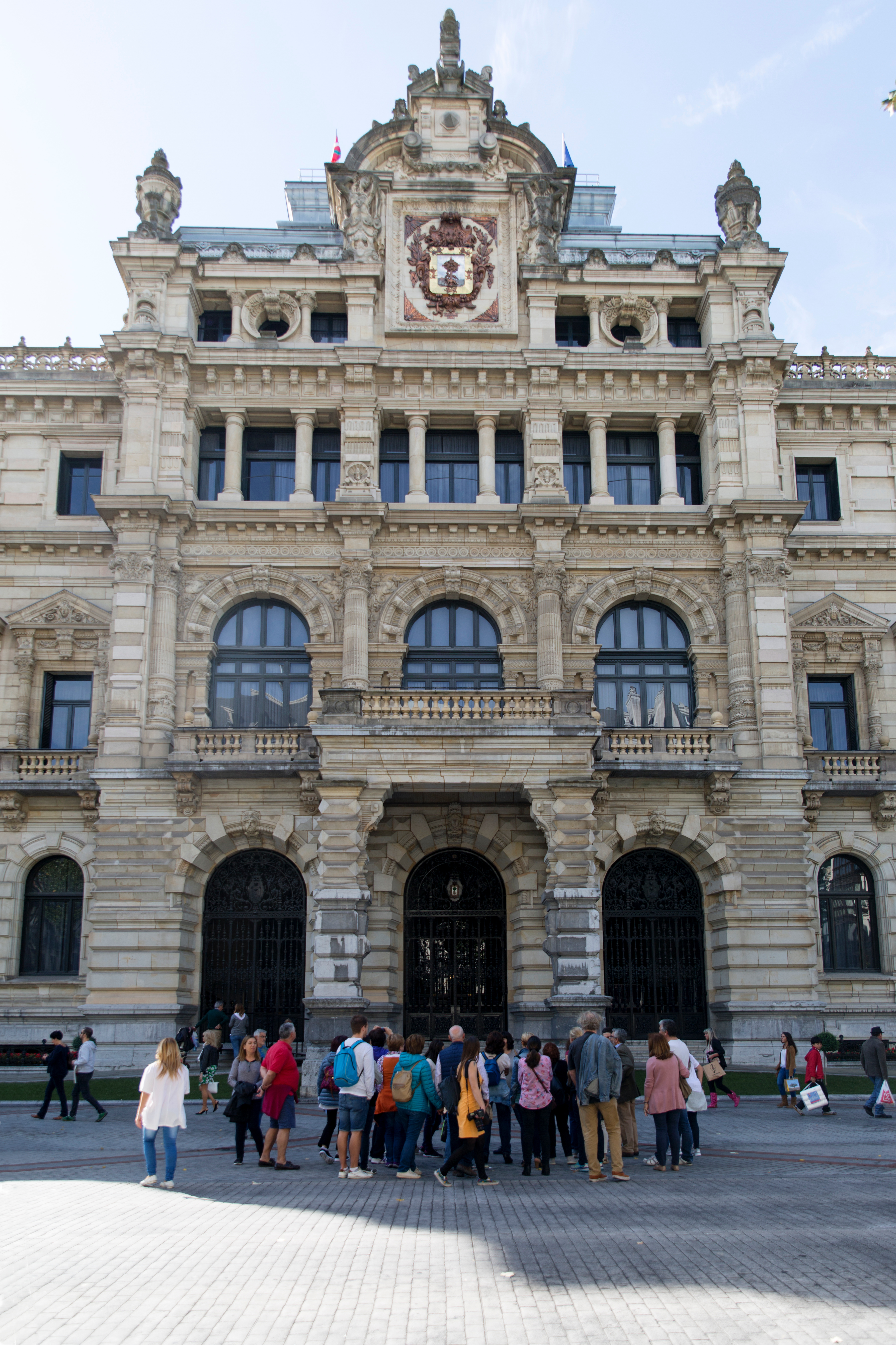 Palace of the Biscay Foral Council